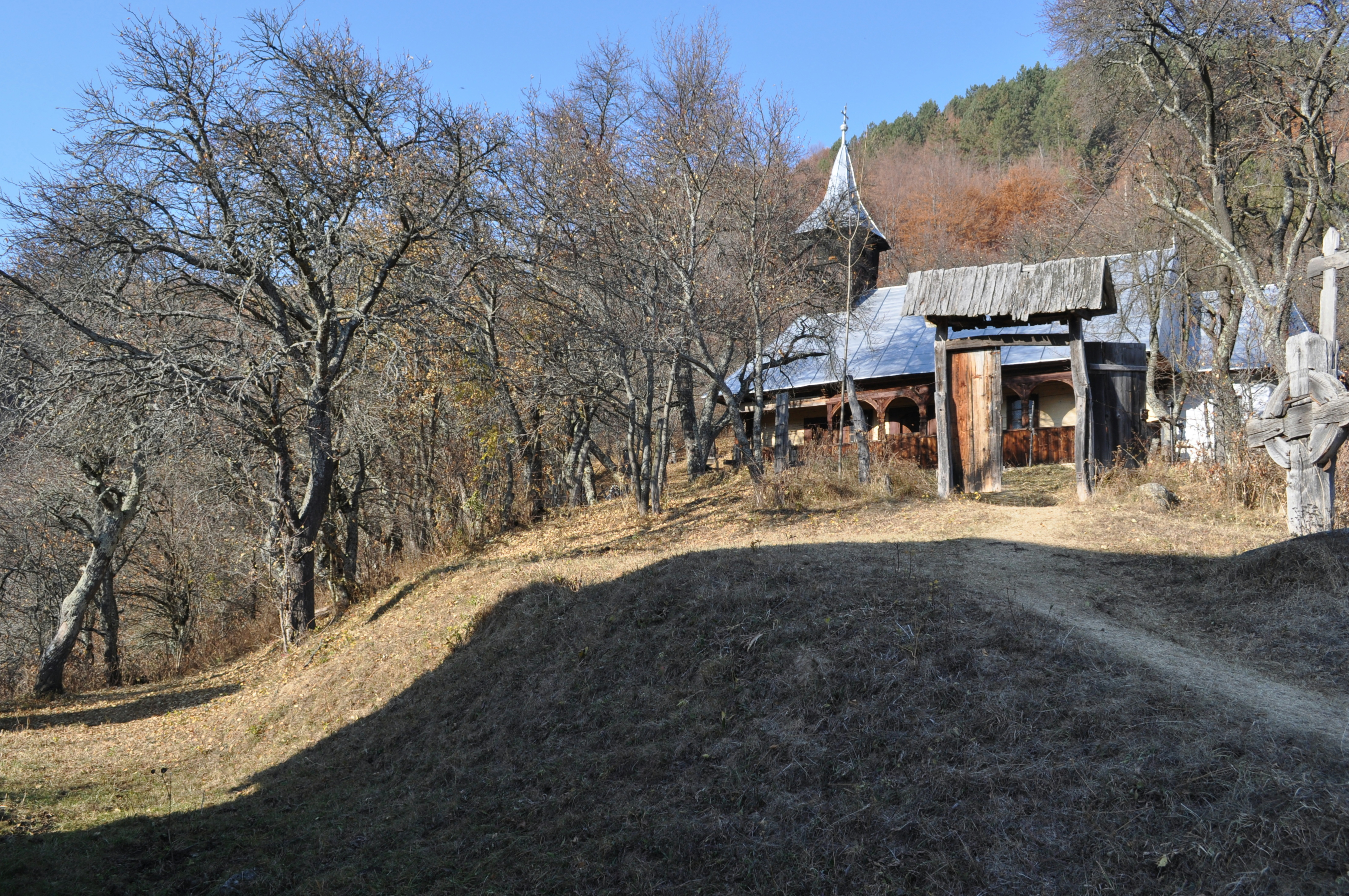 Wooden church in Dealu Geoagiului, Alba county